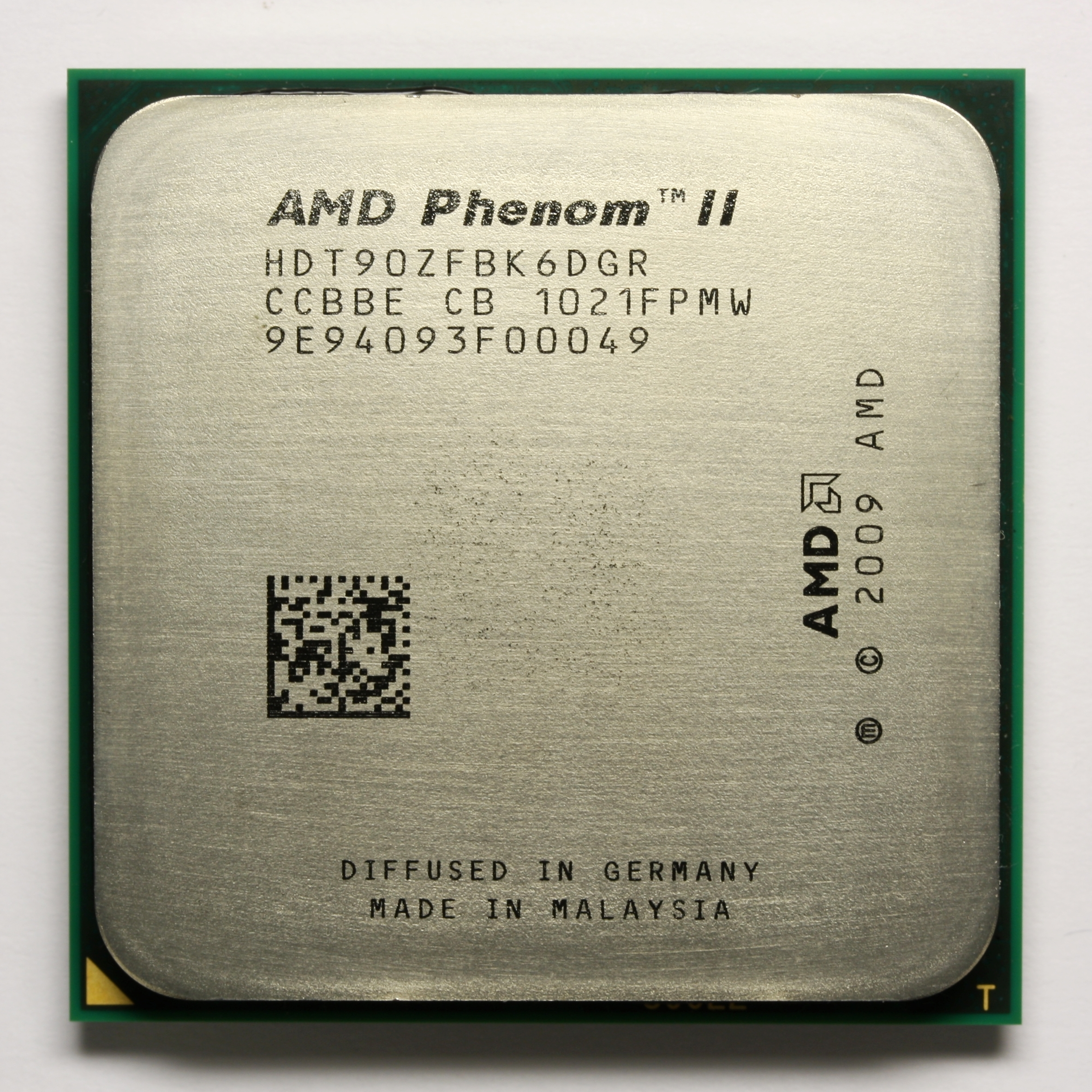 The top of an AMD Phenom II X6 1090T (HDT90ZFBK6DGR) CPU